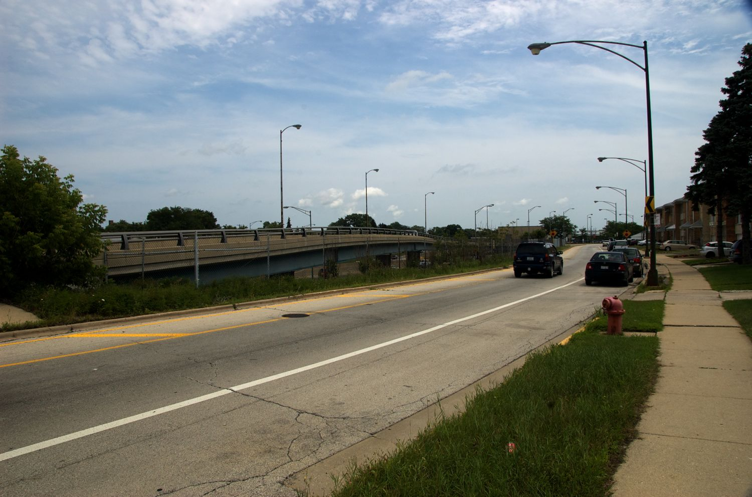 Illinois Route 72 just west of Illinois Route 43 (Harlem Avenue). The western lanes are routed onto a bridge over the eastbound exit ramp from I-90 (Kennedy Expressway) to Harlem Avenue via a small portion of IL 72.